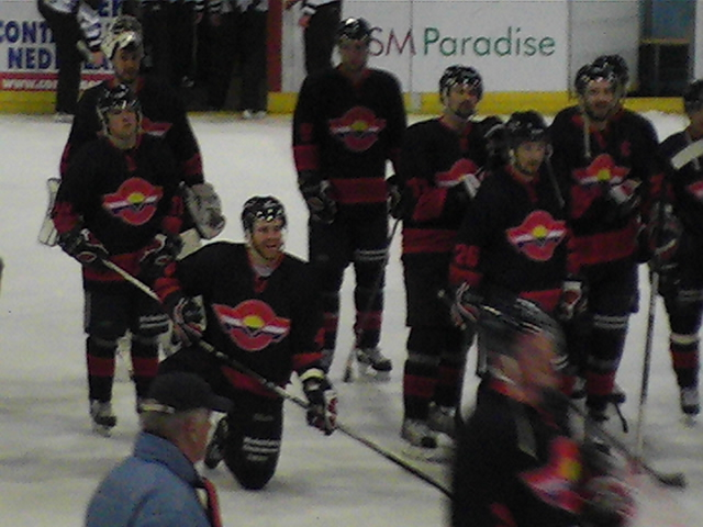 HYS The Hague players at De Uithof in The Hague, Netherlands.